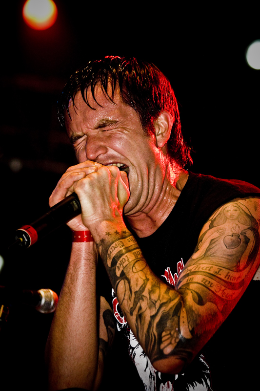 Marcus Bischoff, singer of the metal/metalcore band Heaven Shall Burn, at Resurrection Festival 2010.